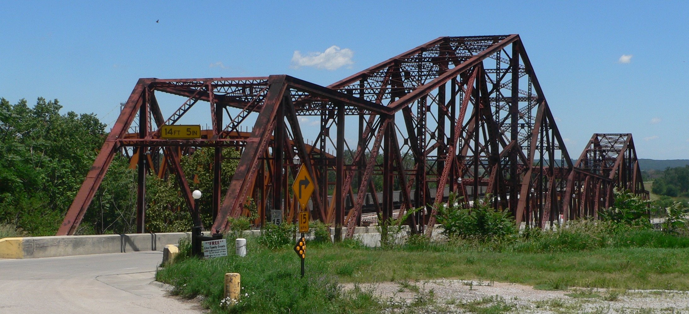 Bridge carrying U.S. Highway 34 across Missouri River east of Plattsmouth, Nebraska; seen from the southwest.